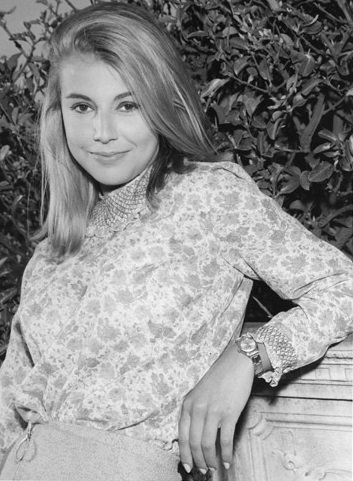 Mercedes Harris- actriz